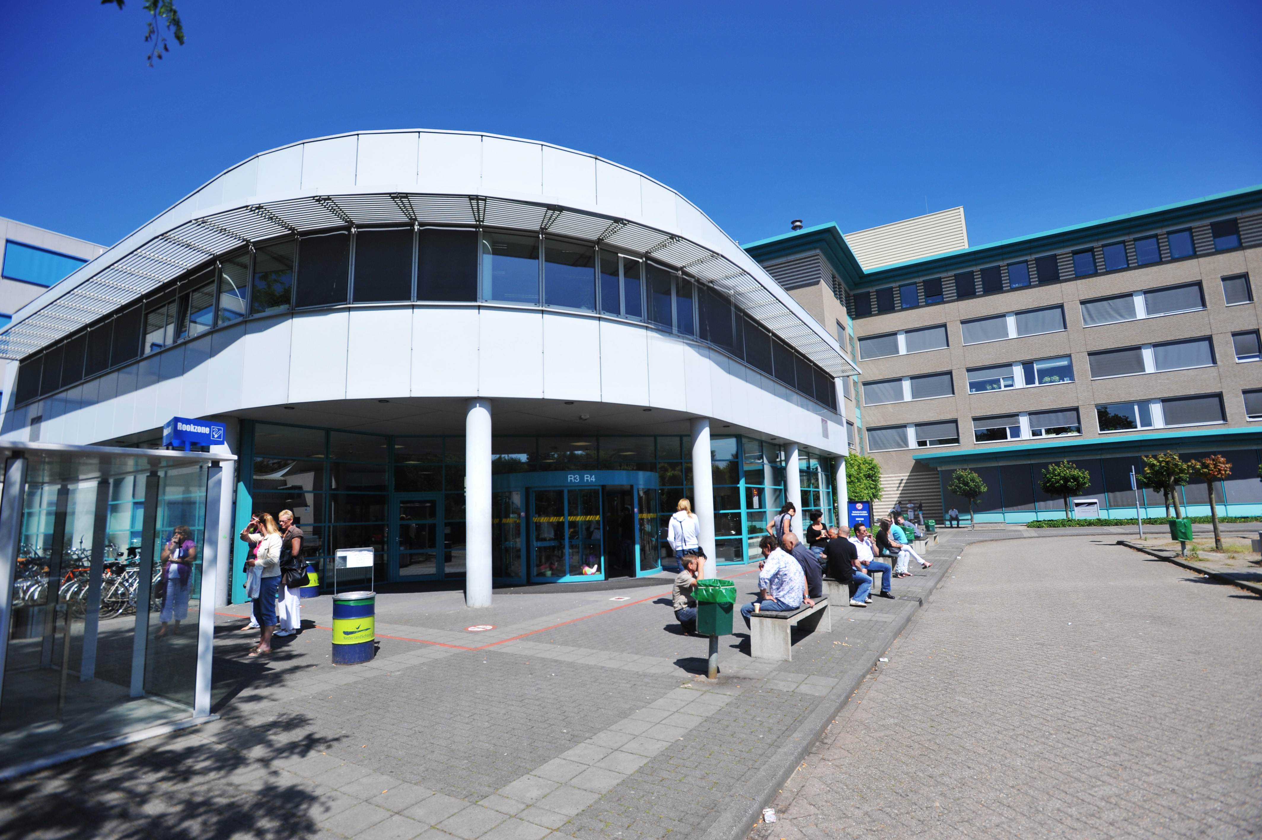 One of the campus buildings in Eindhoven